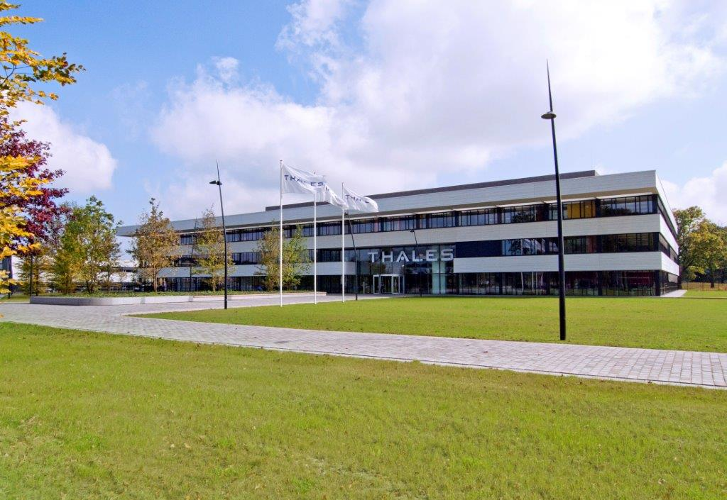 Main building of the High Tech Campus, Hengelo, Netherlands.